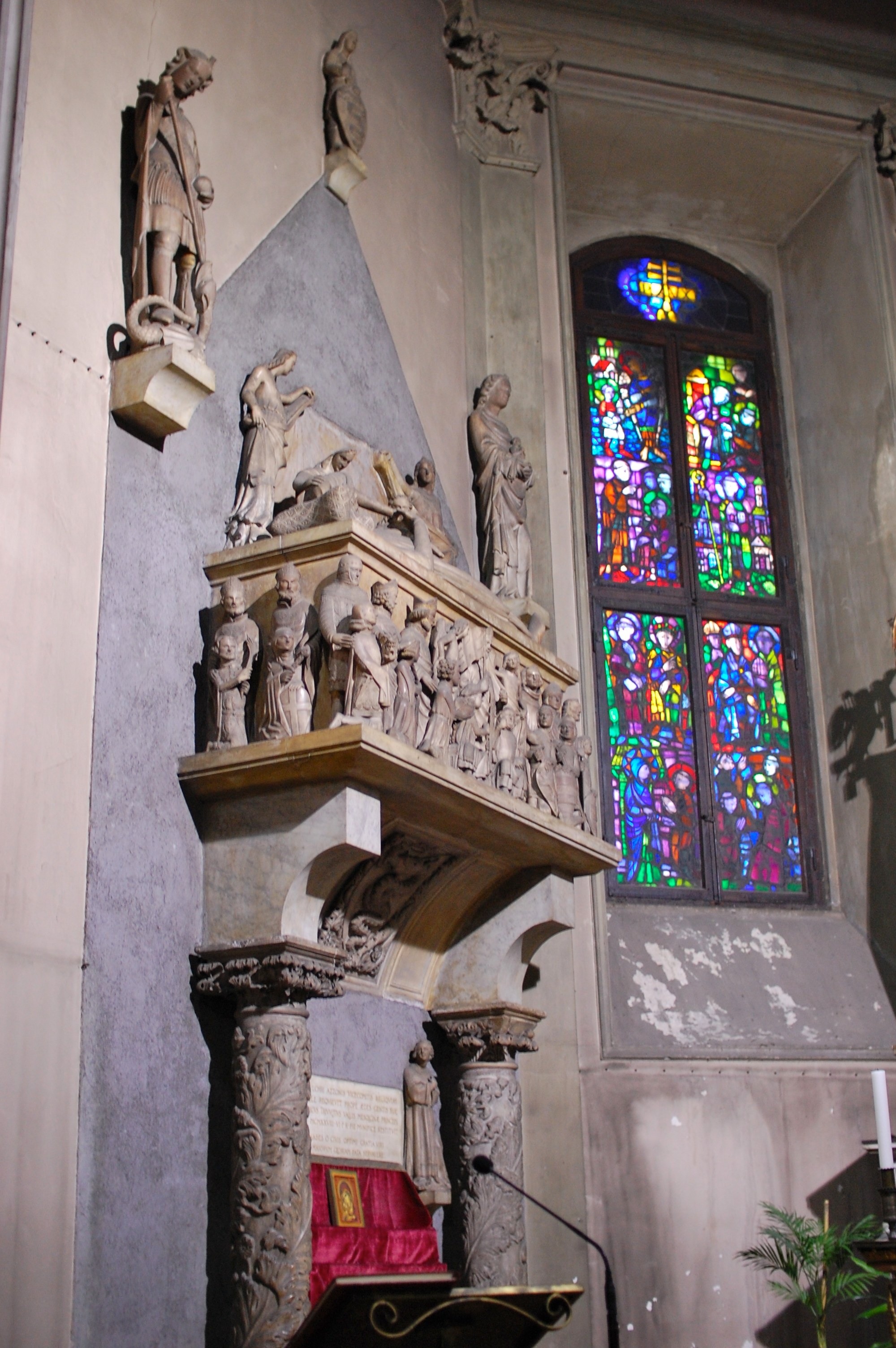 Milan. Azzone Visconti's grave in the church of San Gottardo in Corte (formerly the chapel of the Palace of the Dukes of Milan), was sculpted by Giovanni di Balduccio and his workshop. The relief on it shows Emperor Ludwig the Bavarian investing Azzone Visconti as imperial vicar. The monument was dismantled during the neoclassical reconstruction of the church, and rebuilt in modern times in the way we can see it now; however several parts of it had been meanwhile lost.